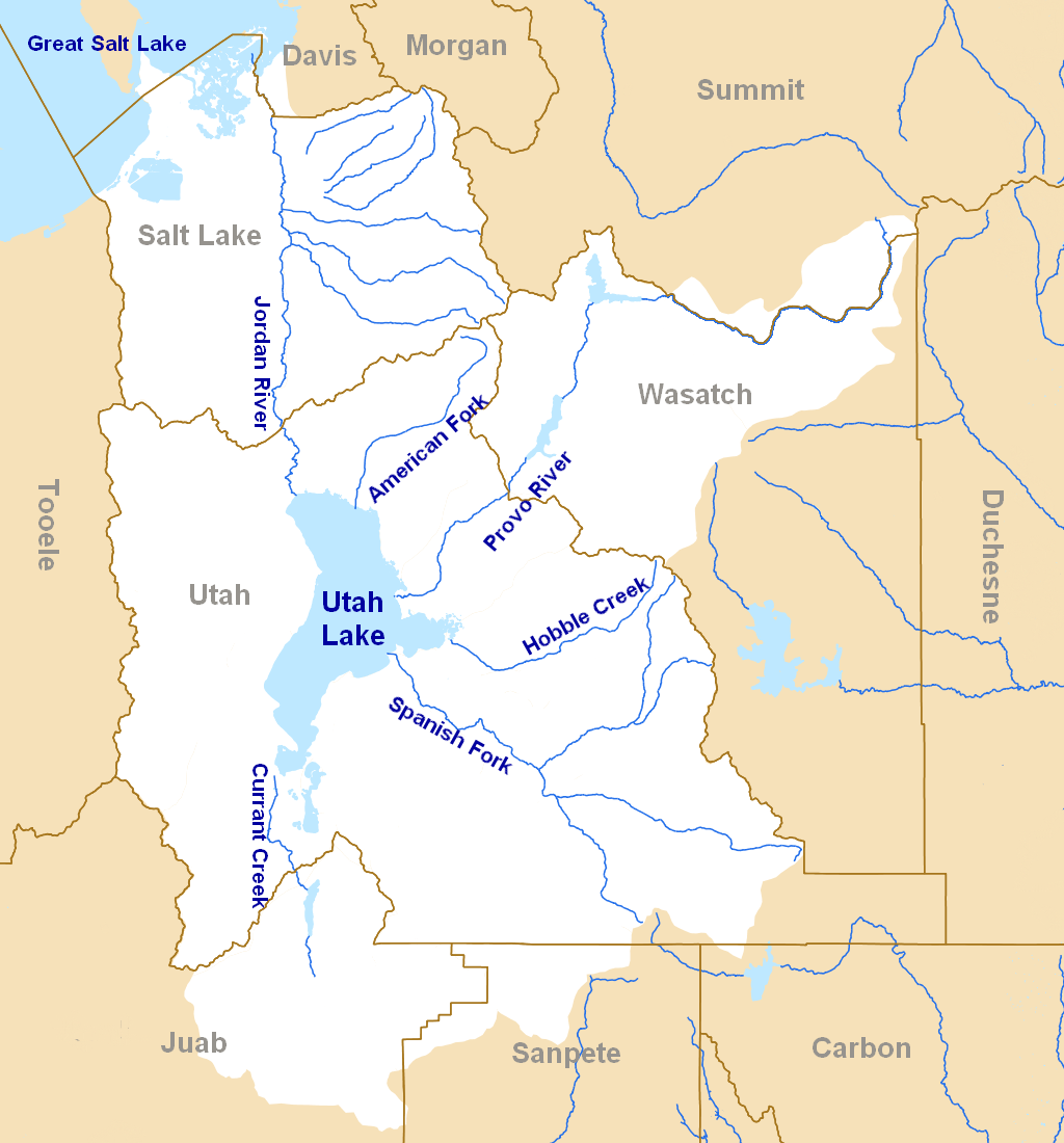 Jordan River Basin, including the Jordan, Utah Lake, Provo and Spanish Fork Subbasins. Rivers and creeks are in blue. County names are in gray.